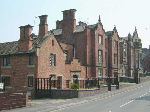 The Old Grammar School. circa 1843 now in use as apartments.